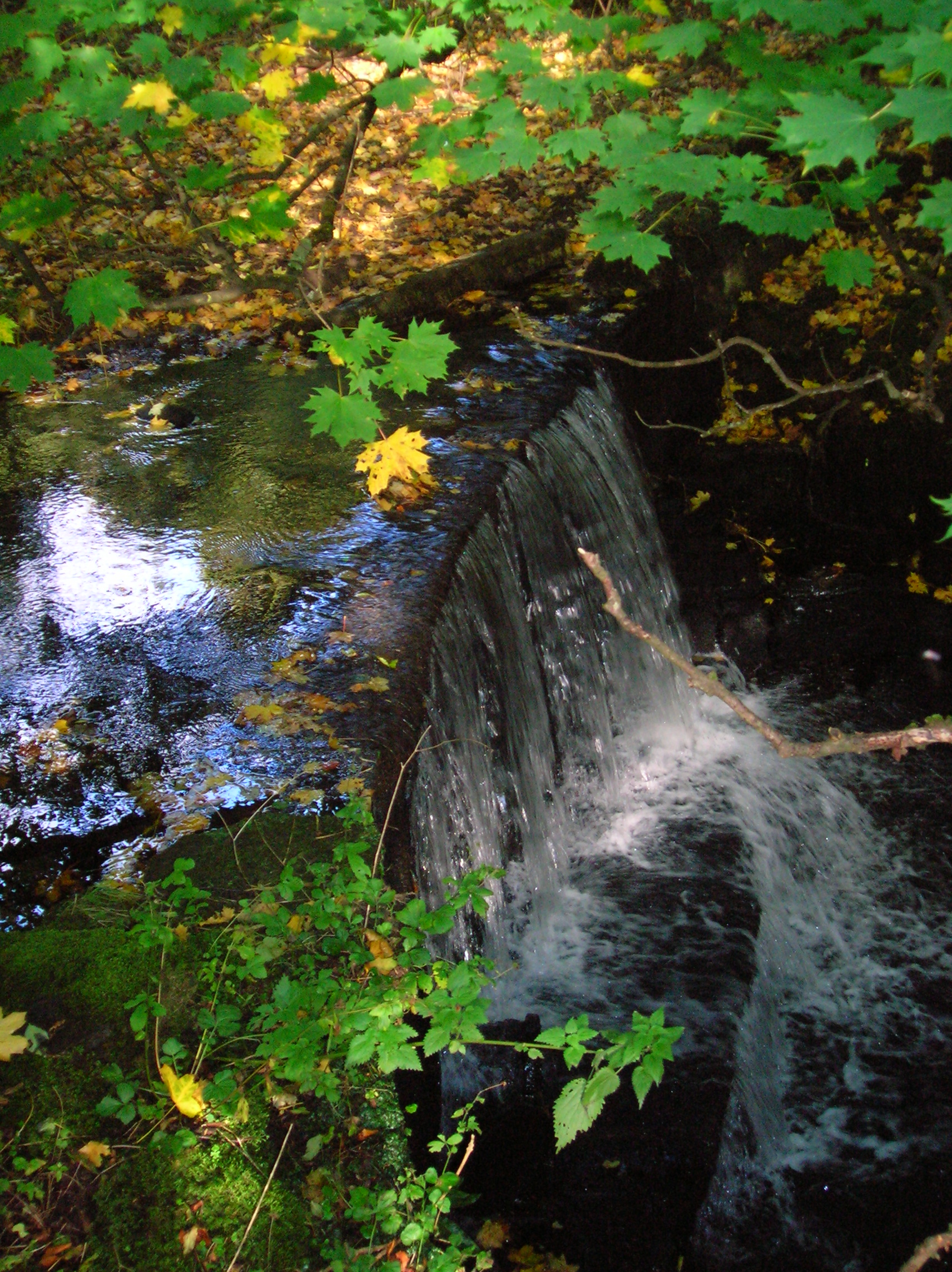 Hydroelectric power scheme - dam - 1892